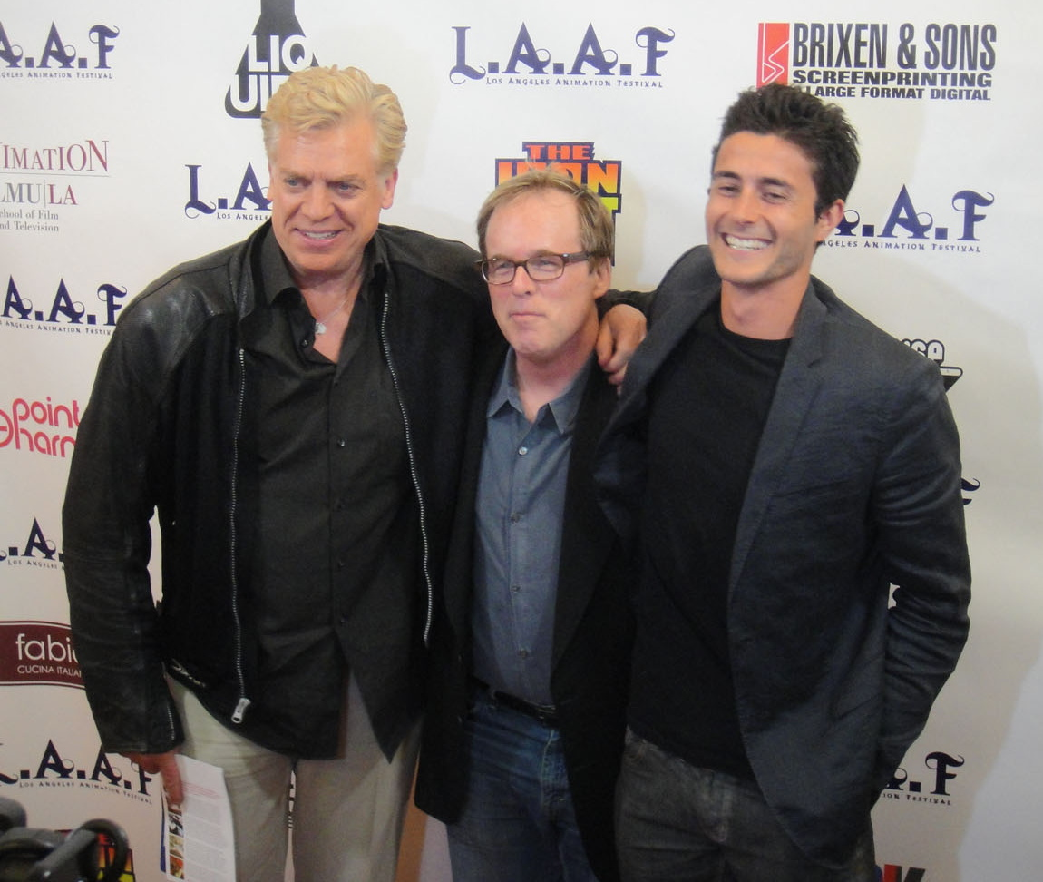 LA Animation Festival - Iron Giant screening with Christopher McDonald, Brad Bird, and Eli Marienthol